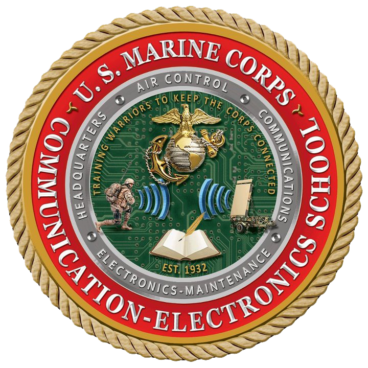 The updated (20120731) logo for the Marine Corps Communications-Electronics School.